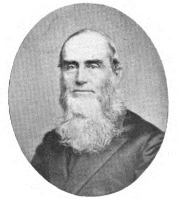 Rev. James Craik, rector of St. John's Church, Charleston, West Virginia (then Virginia), 1839 - 1844. President of the House of Deputies of the Episcopal Church, 1862 - 1874